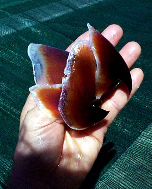 Photo from In Search of Giant Squid - 1999 Expedition Journals, Smithsonian Institution.